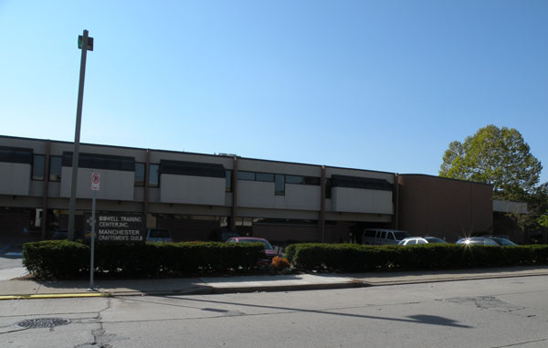 The Manchester Craftsmen's Guild located at 1815 Metropolitan Street in the Chateau neighborhood of Pittsburgh, Pennsylvania.